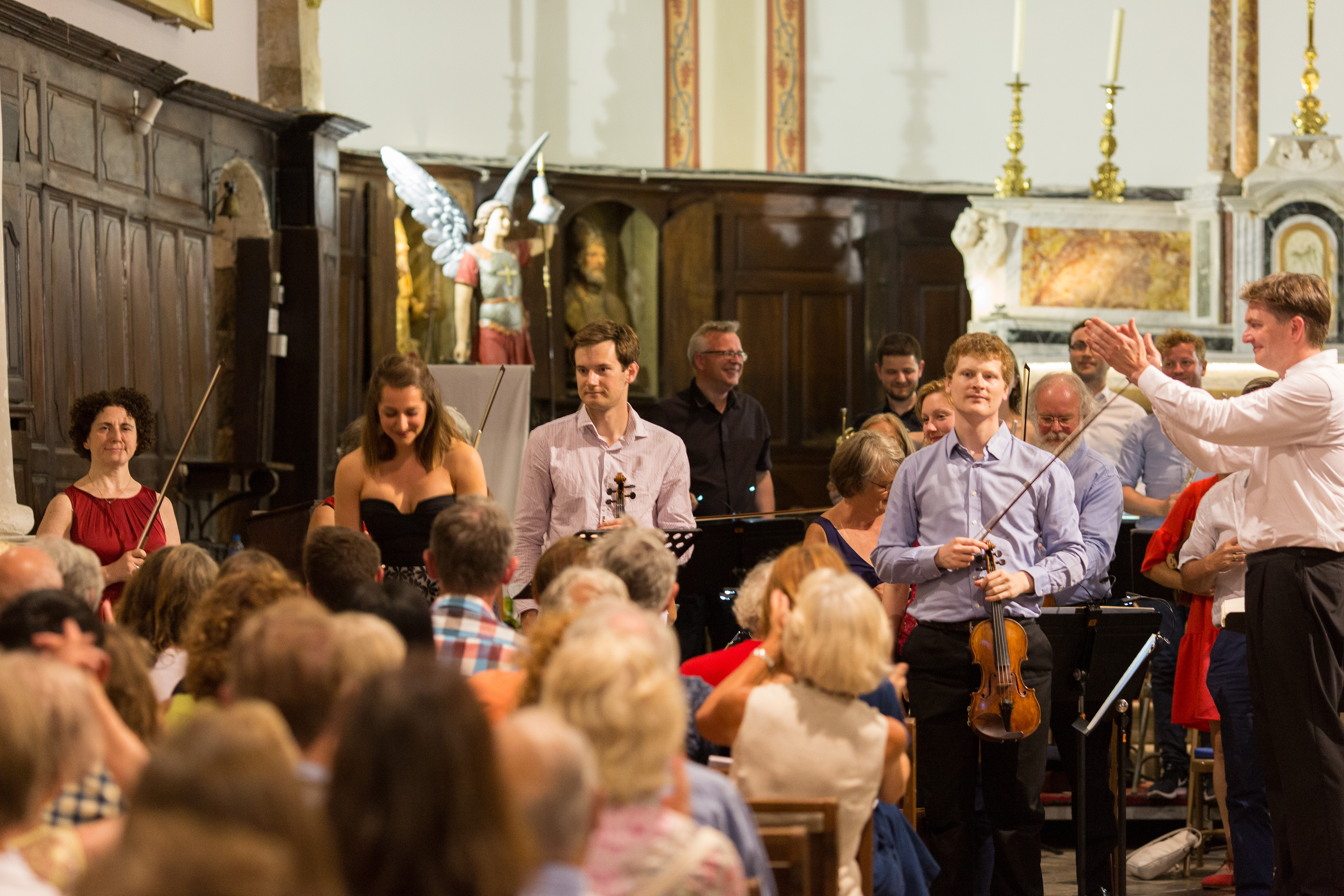 Dima Bawab Soprano, James Lowe Conductor